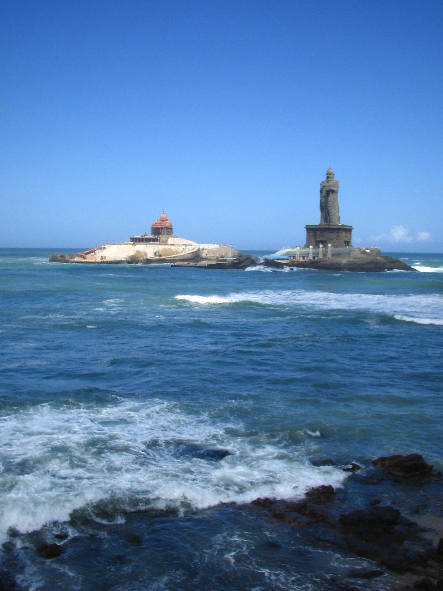 Kanyakumari: the two rocks with Devi, Vivekananda and Thiruvalluvar Memorials.